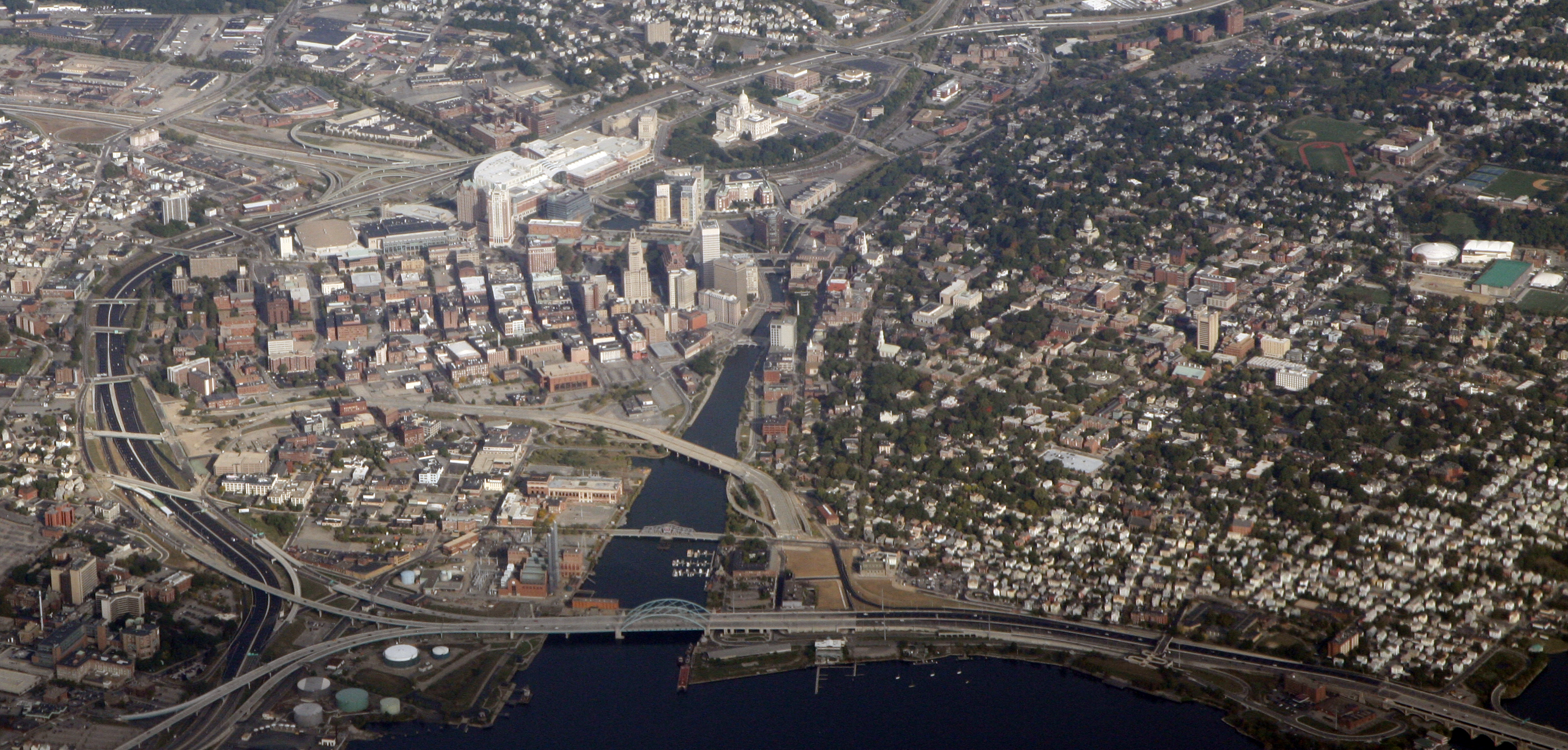 Downtown Providence, Rhode Island.